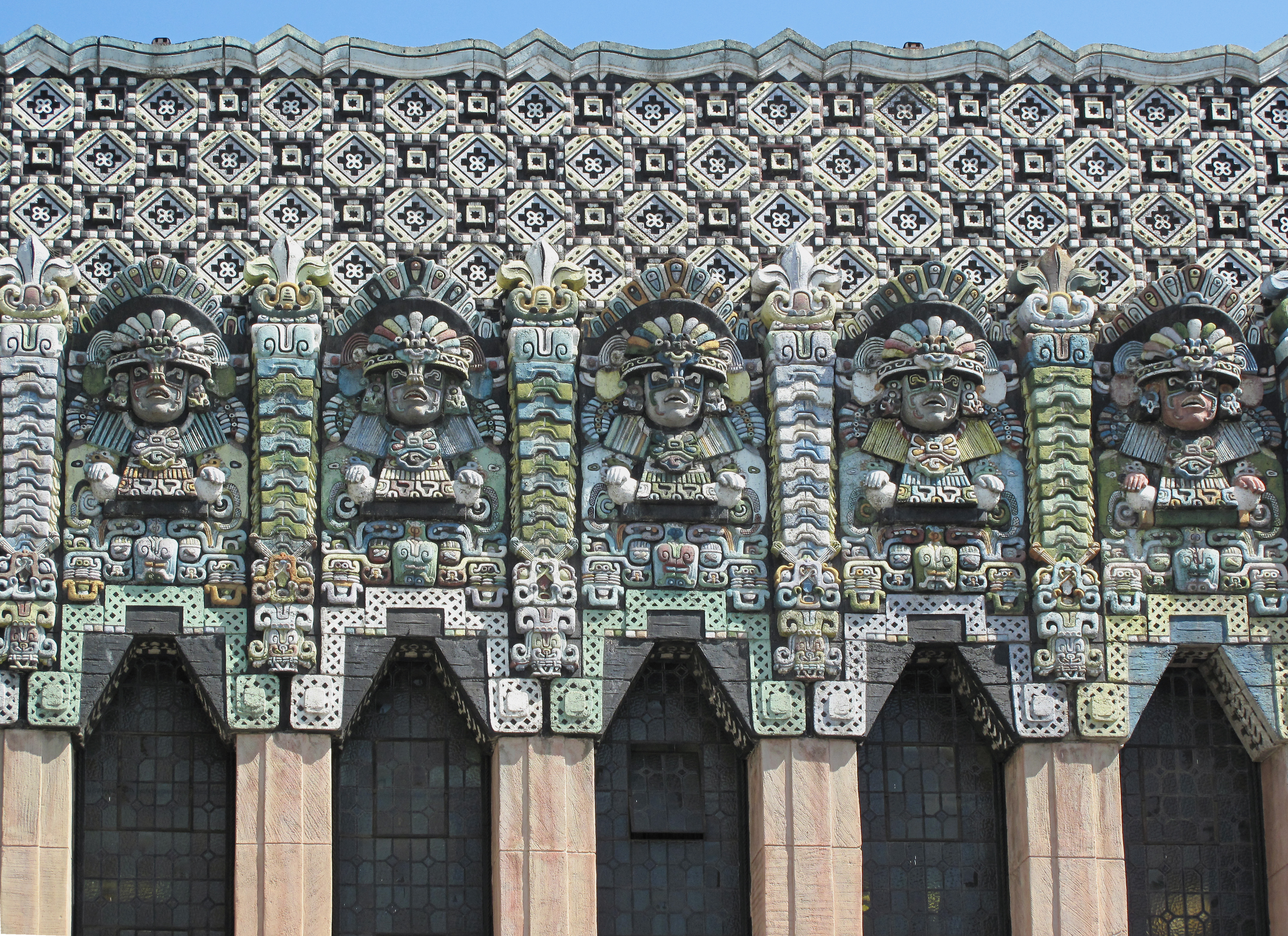 Details of the facade of the Mayan Theater, Los Angeles, California.